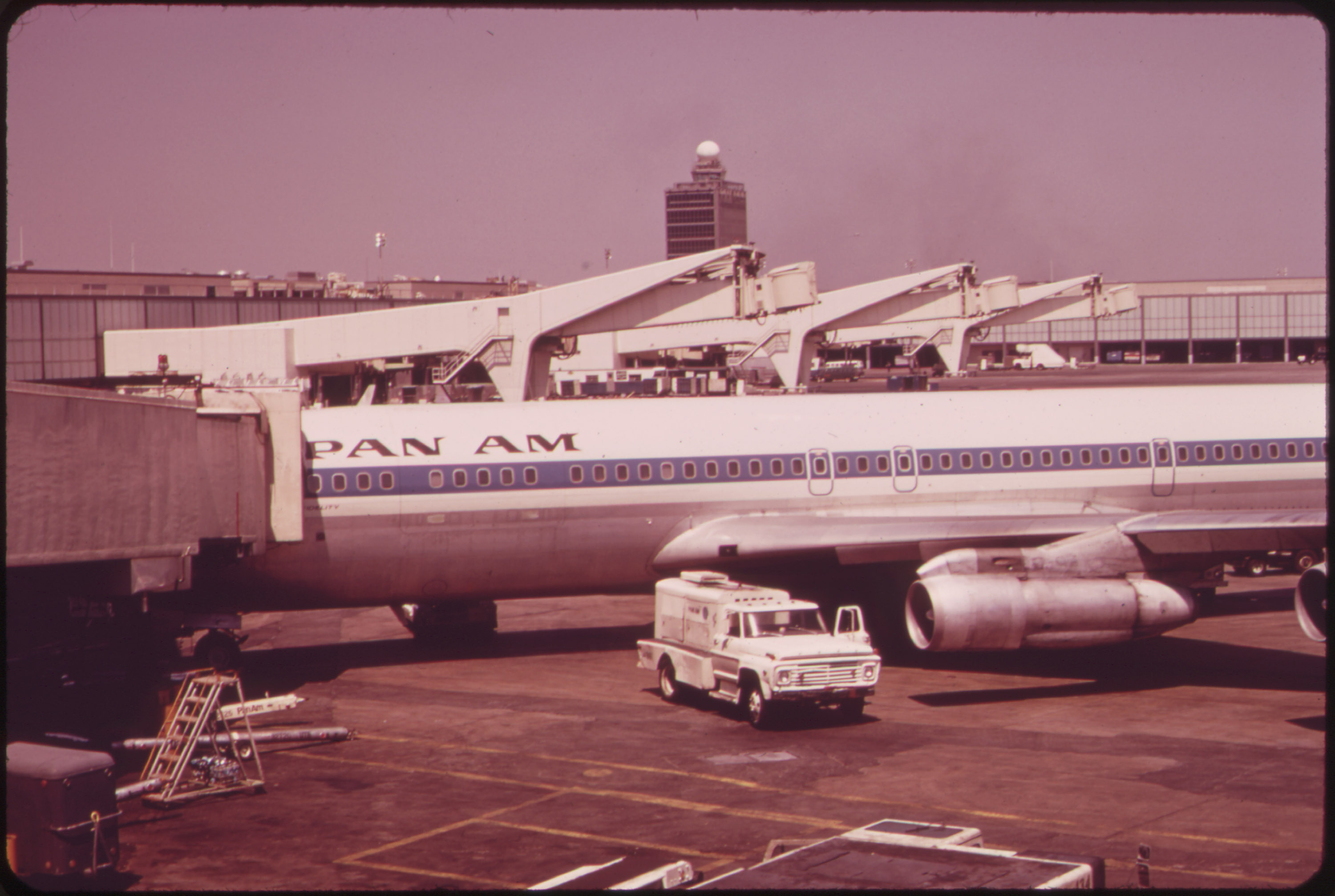 Pan Am Jumbo Jet at John F. Kennedy Airport 05/1973